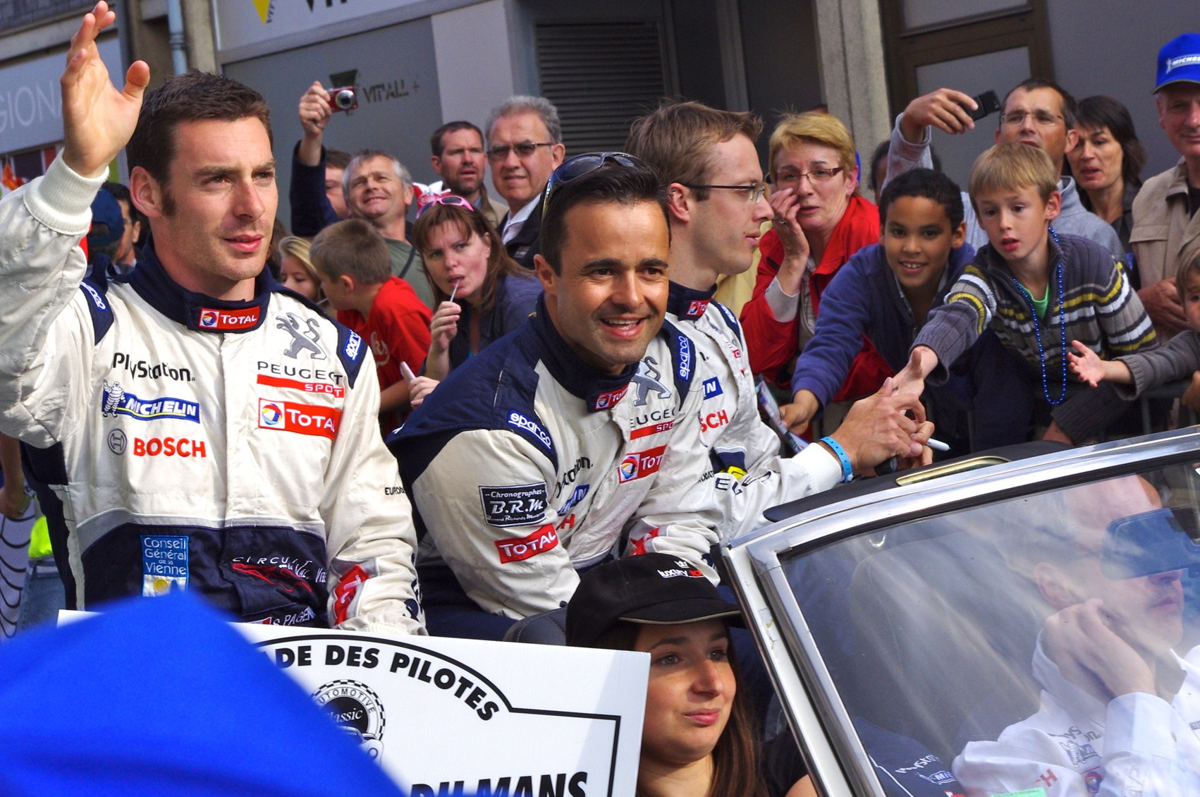 Simon Pagenaud, Pedro Lamy, and Sébastien Bourdais at the Le Mans 24 Hours 2011 Drivers' Parade